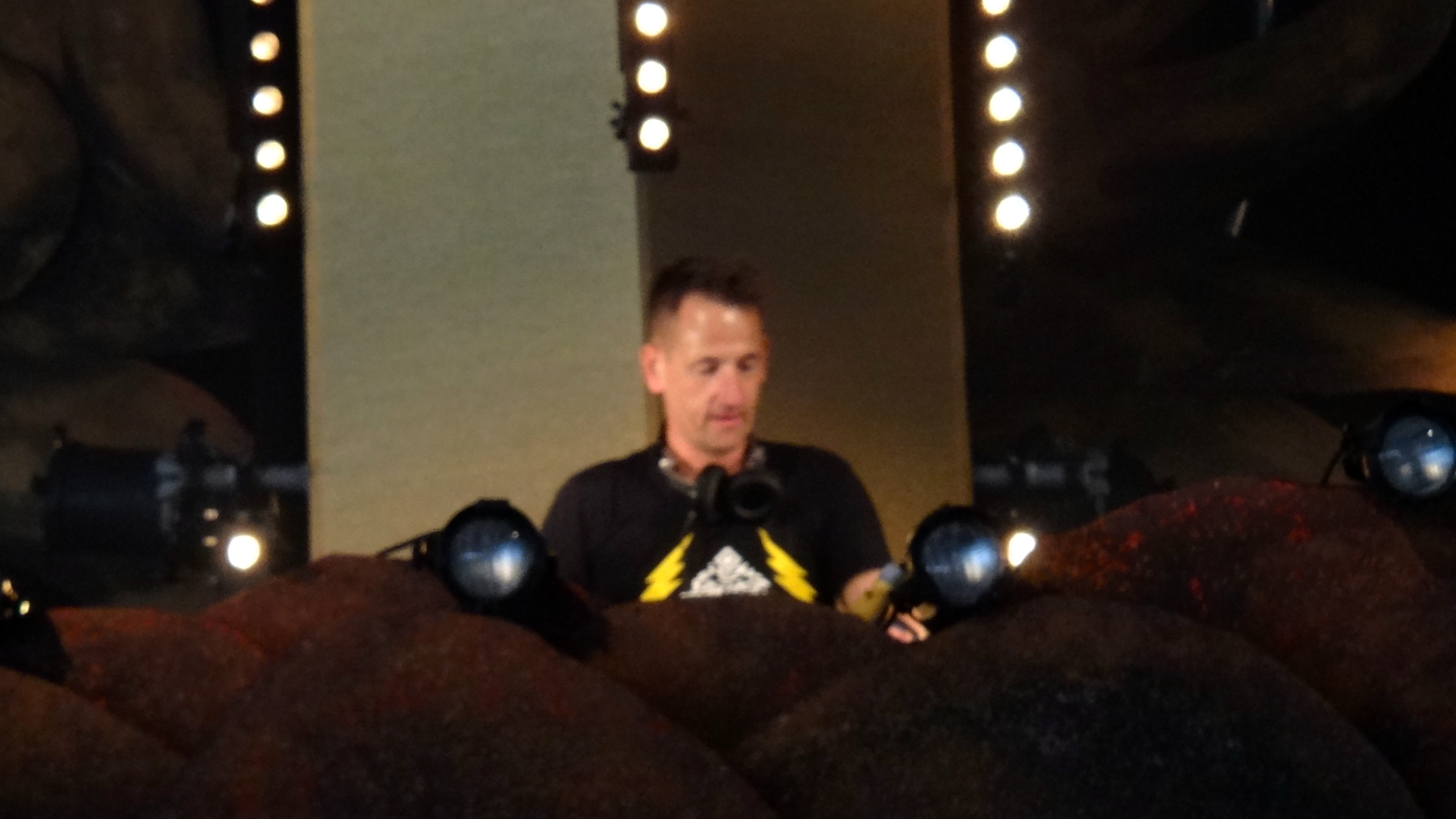 Oliver Froning of the German happy hardcore group Dune playing at the Defqon.1 music festival on June 20, 2015.